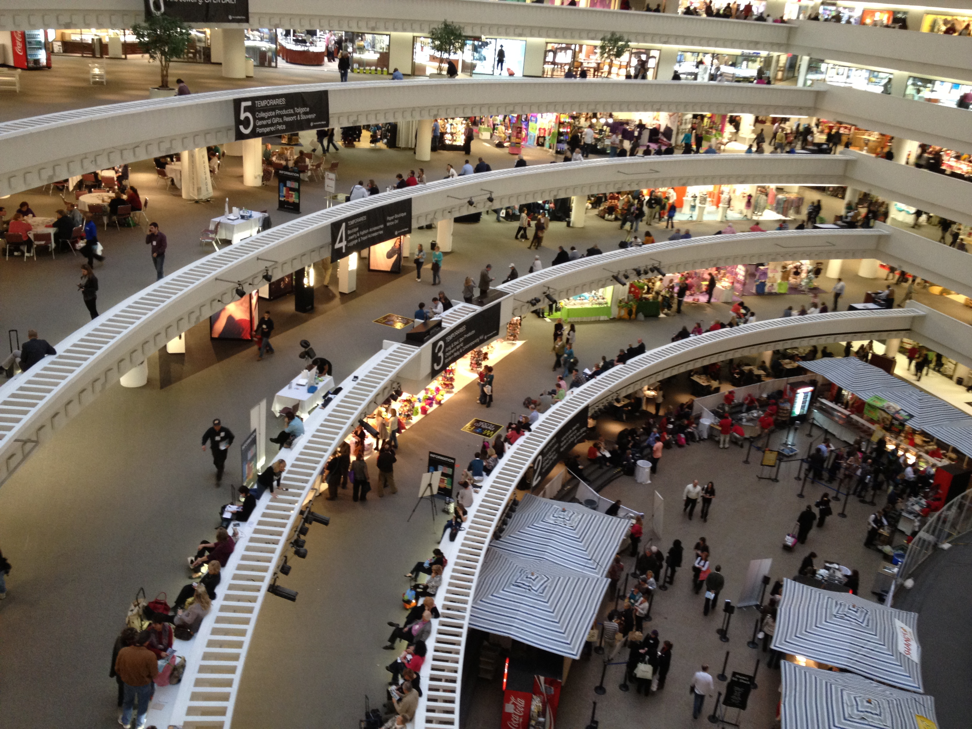 This is the view from the sixth floor of building three of AmericasMart Atlanta.